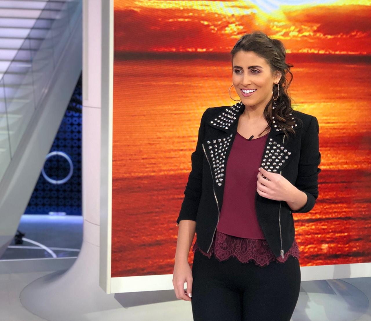 Sofía Rivera Torres at Television Set